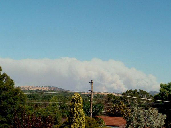 Pulleytop bushfire could be seen from Wagga Wagga, New South Wales. The fire started as a little grass fire lit by a spark from a tractor, by mid afternoon the fire was an out of control bushfire. This fire was the second largest fire recorded in the 2005/2006 Fire Season. Because this photograph concerns privacy since this was taken on a private property, only an approximate location is provided: Wagga Wagga, New South Wales, Australia